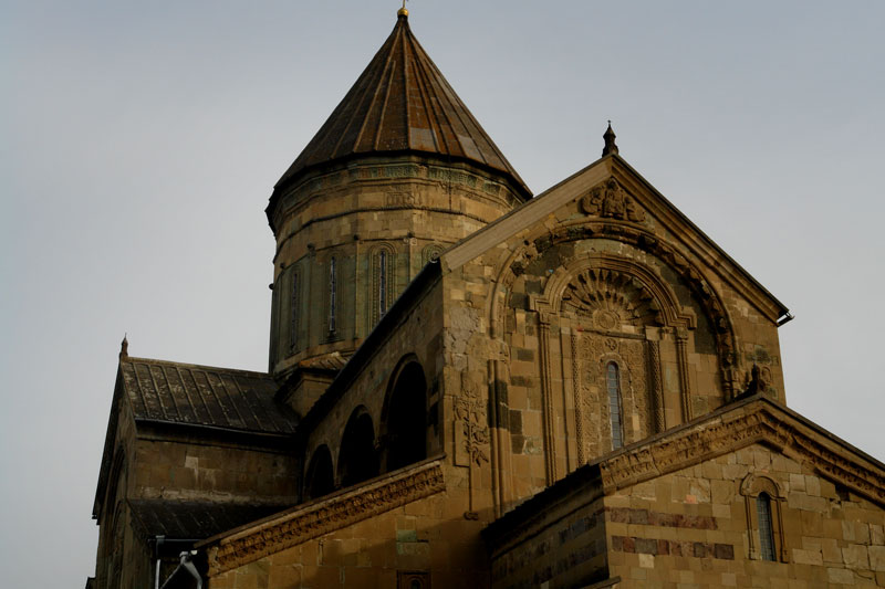 Svetitskhoveli Cathedral in Mtskheta